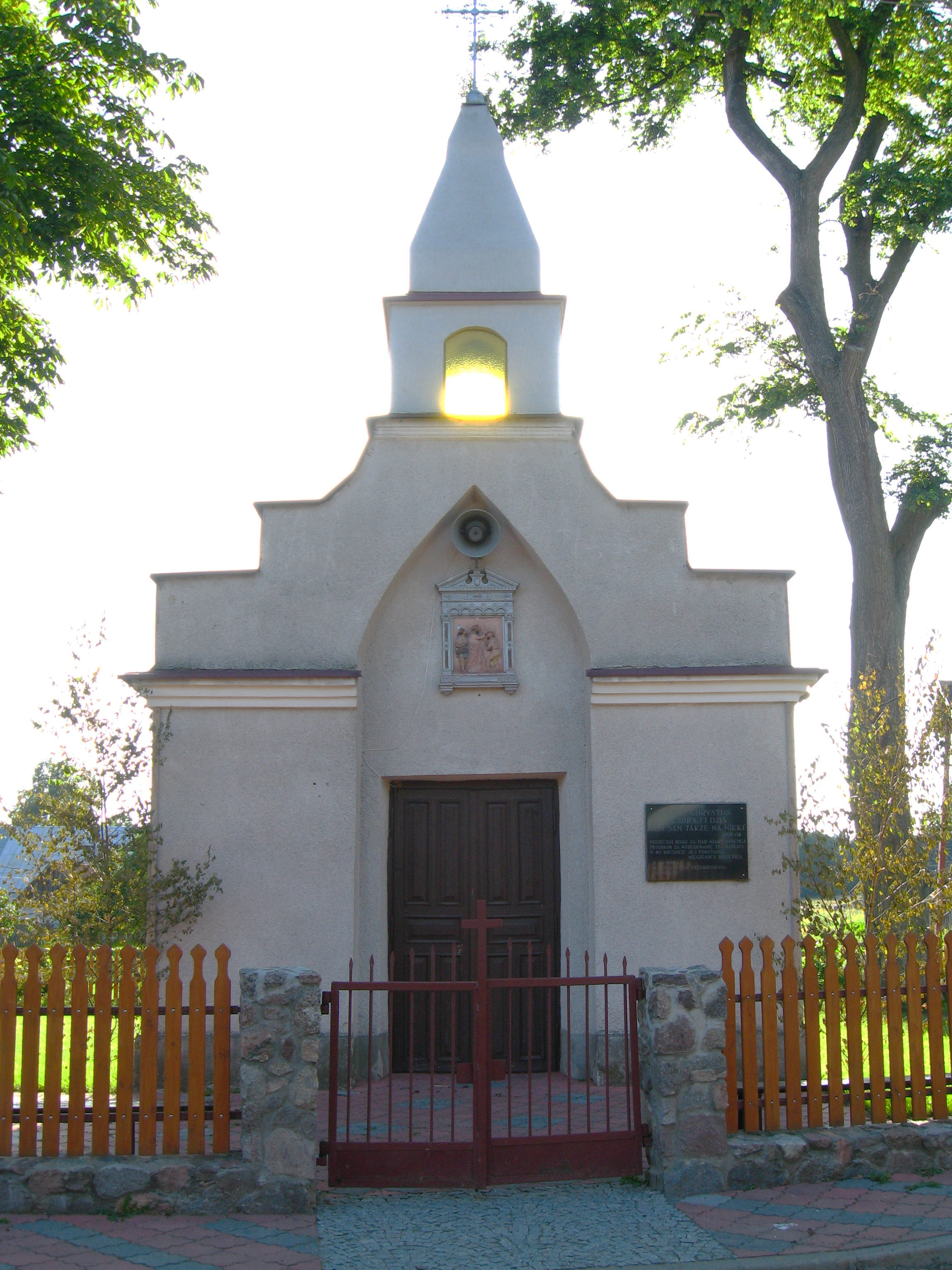 Chapel at the Halickie village (y. 1998)